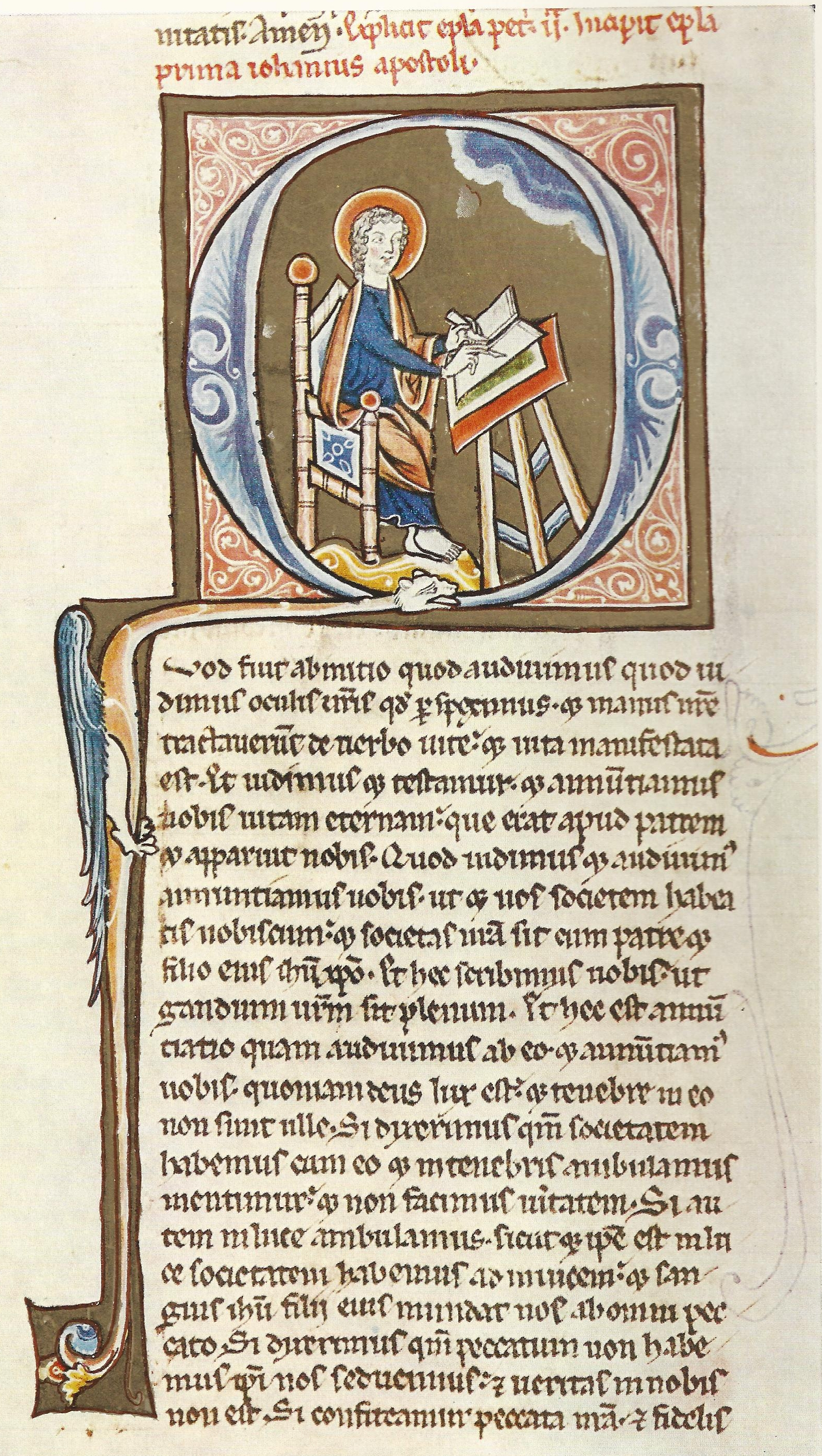 A 13th-century manuscript of the Vulgate, with the First Epistle of John, chapter 1, verses 1 to 8, and part of verse 9 (1 John 1:1-9).